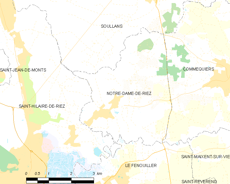 Map of French municipality Notre-Dame-de-Riez